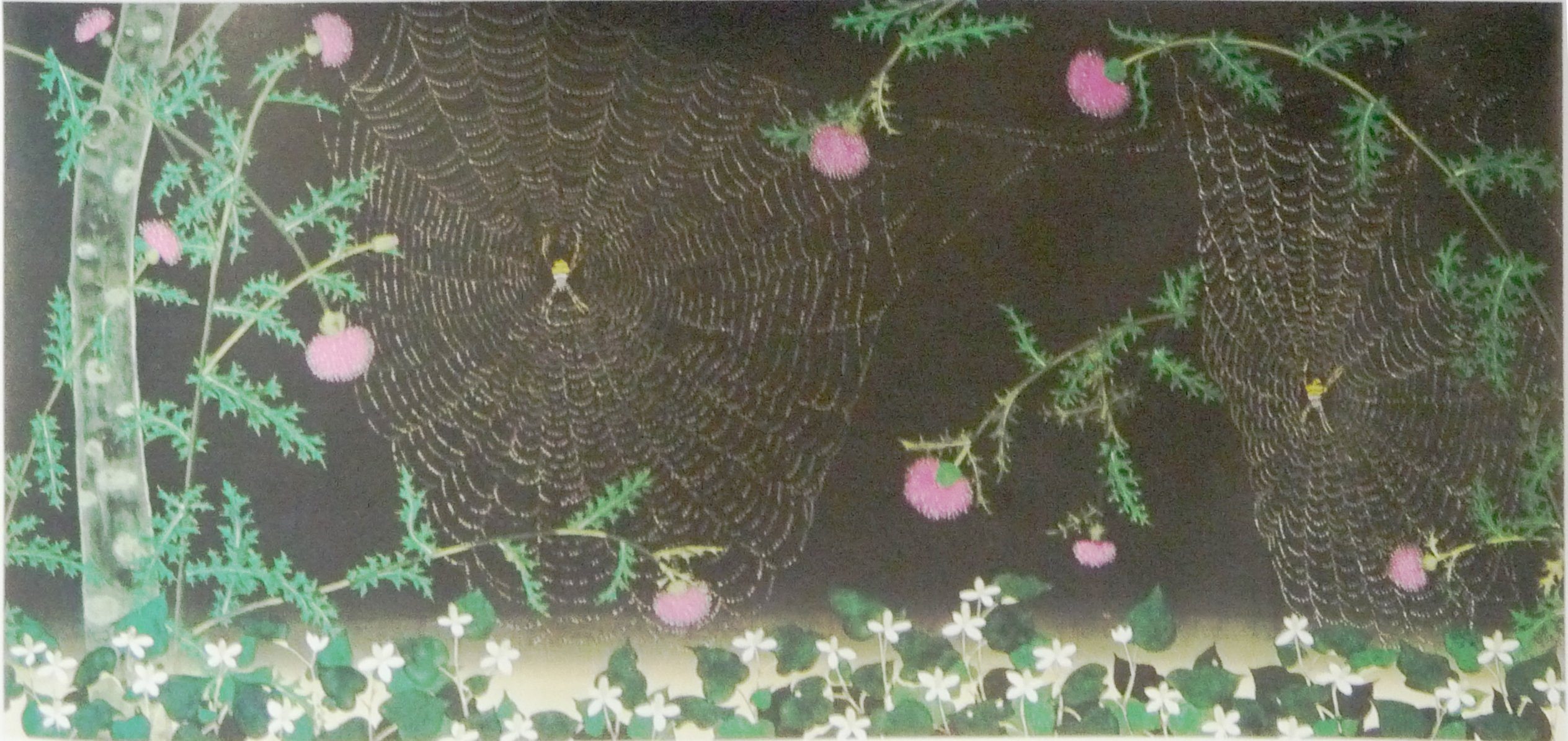 Omoda Seiju "Yotsuyu" (Night Dew)